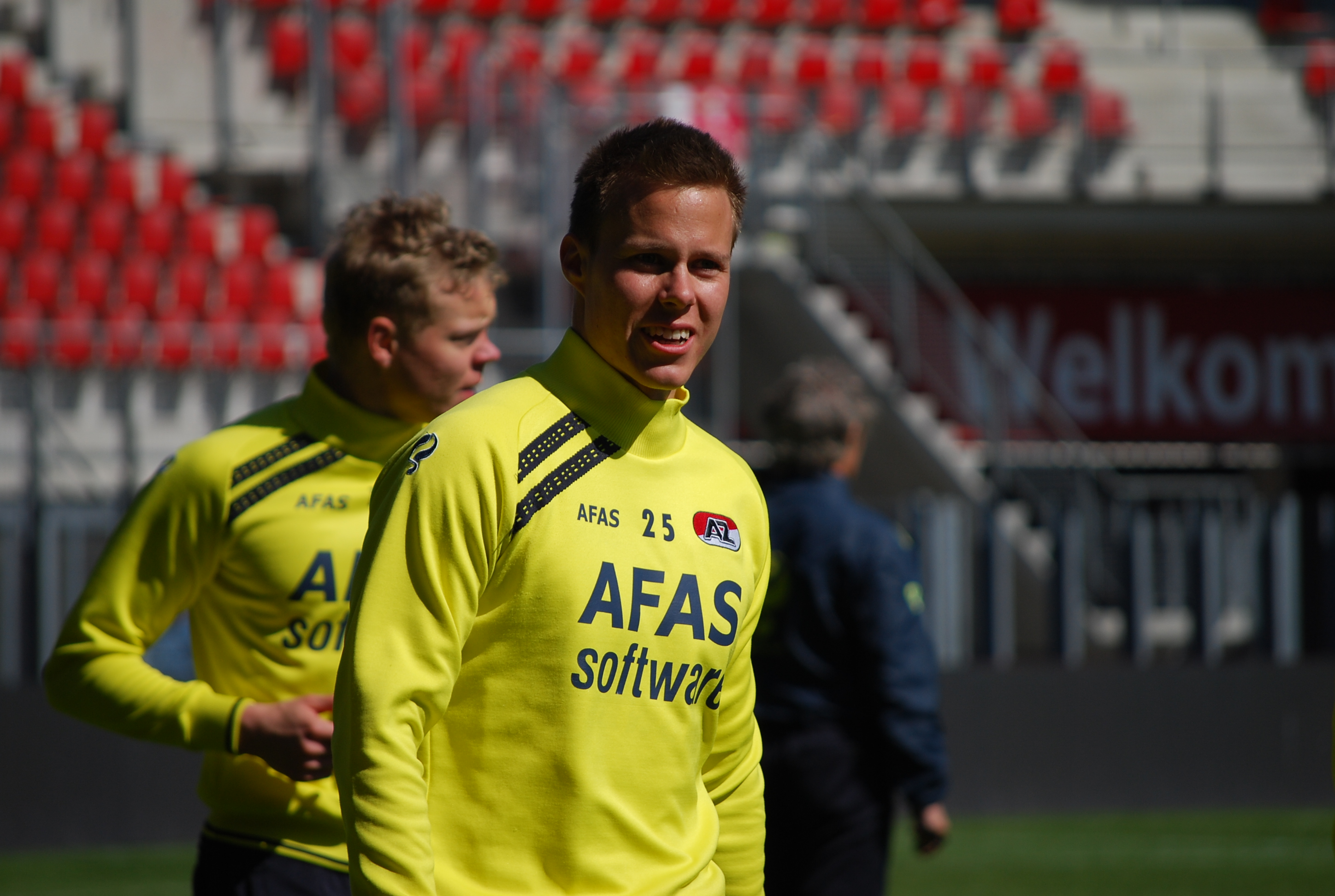 Finnish football player Niklas Moisander